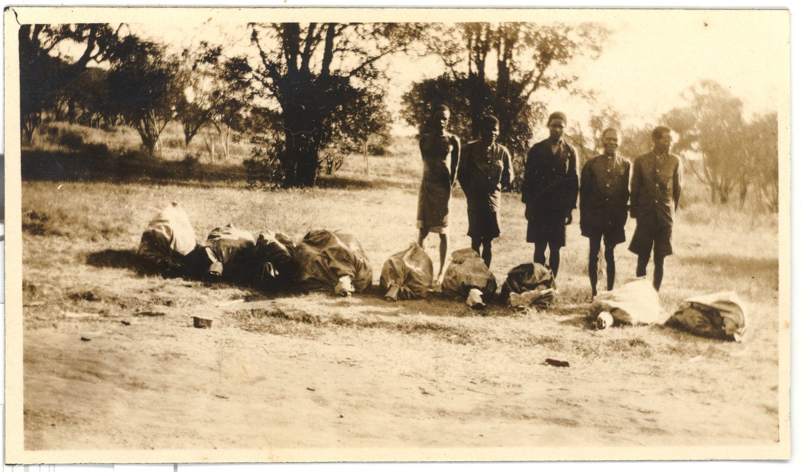 Mail carriers.